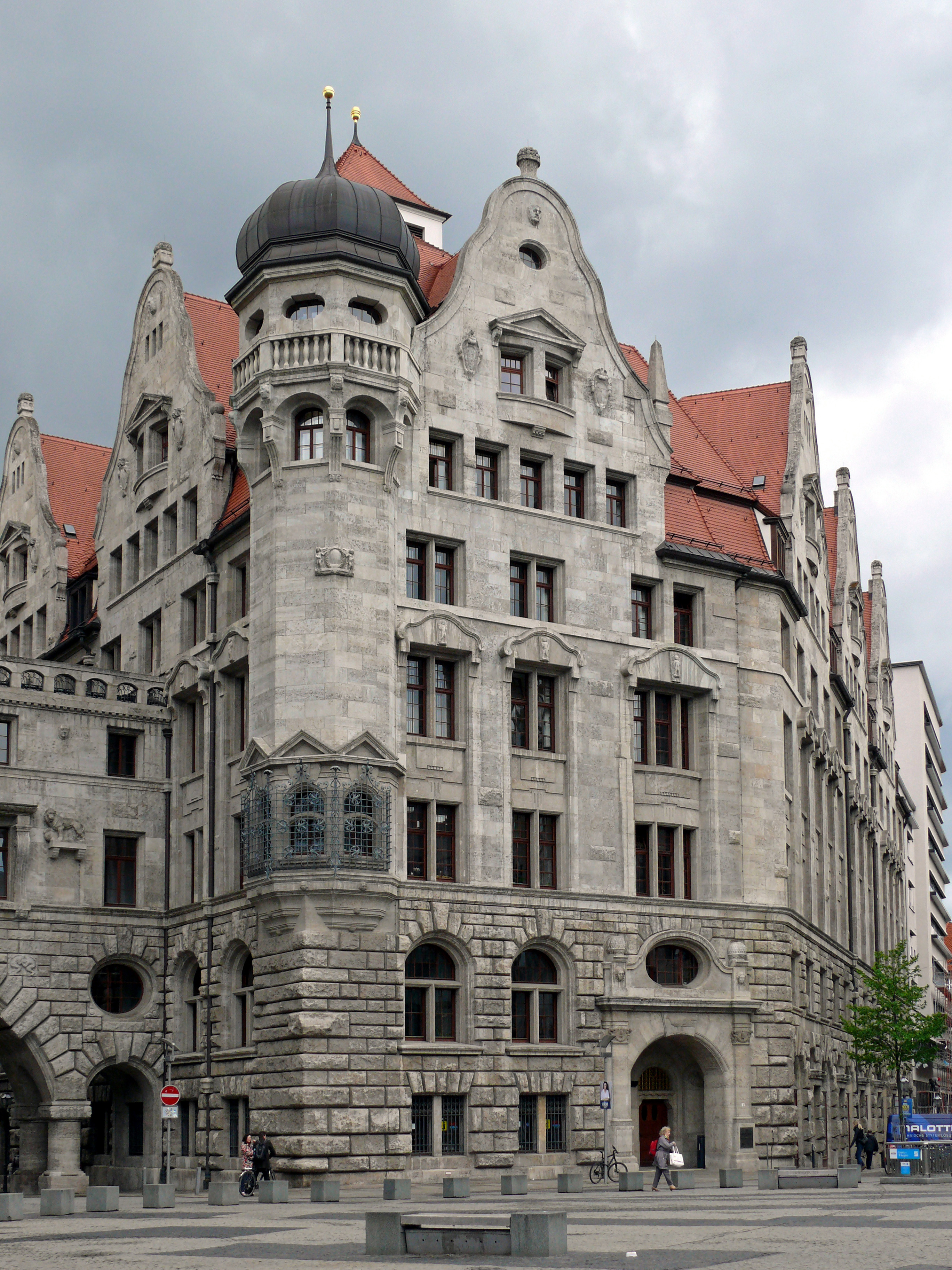 Stadthaus (municipal office building), opposite to Neues Rathaus (New Town Hall), Leipzig, Germany